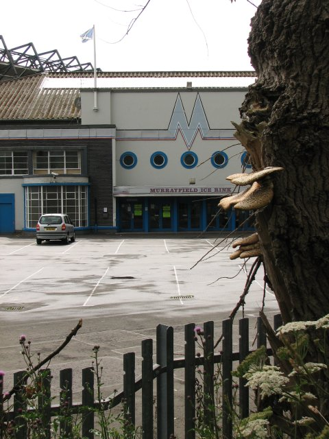 Murrayfield Ice Rink Ageing ice rink, sitting in the shadow of Murrayfield Rugby Stadium. The rink is still very popular, particularly on Friday and Saturday nights. Home to the Edinburgh Capitals hockey team. The photo was taken from the Water of Leith walkway.